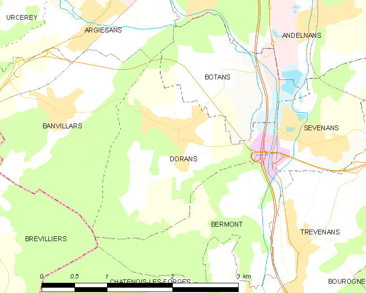 Map of French municipality Dorans